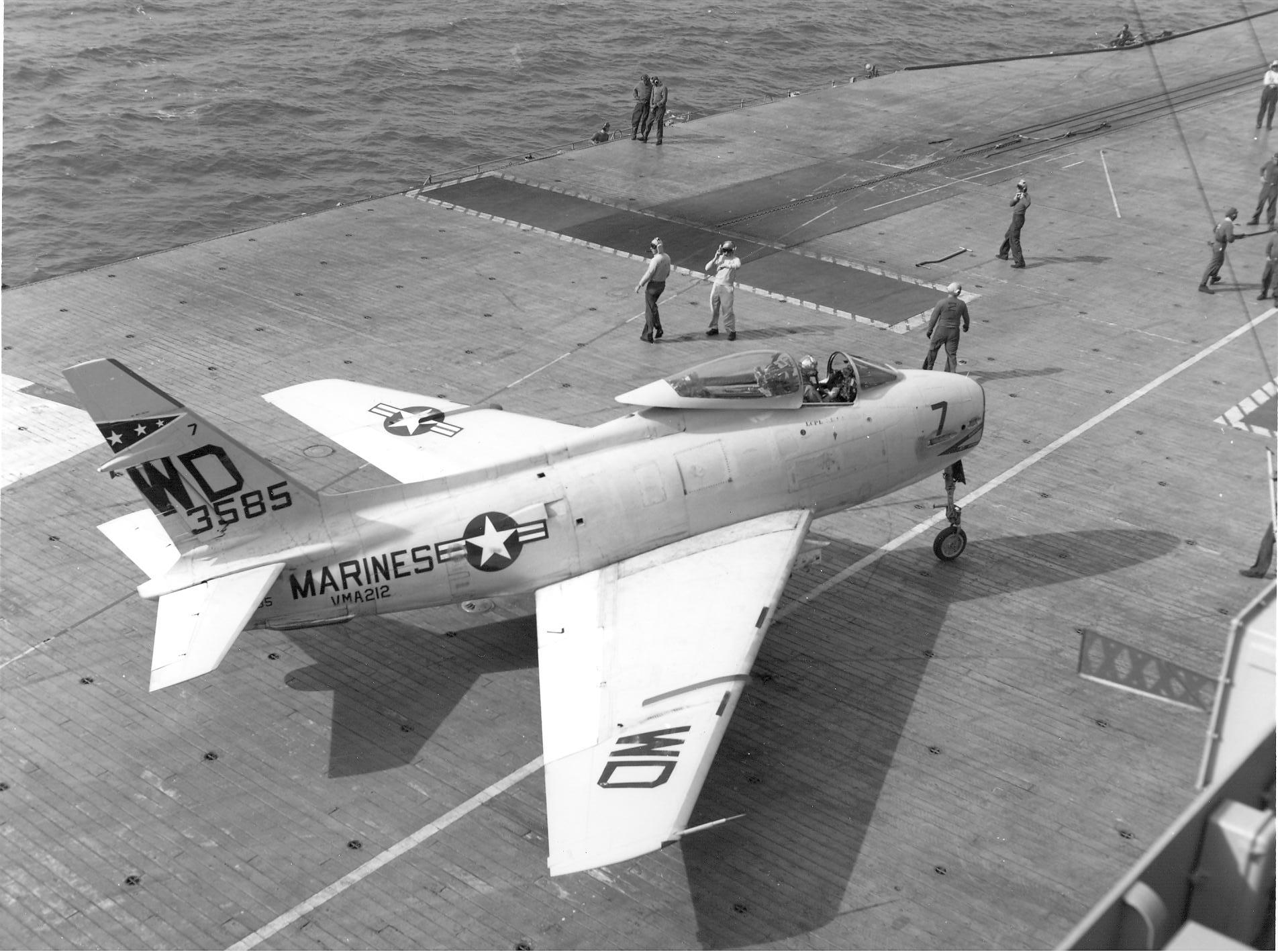 A U.S. Marine Corps North American FJ-4B Fury (BuNo 143585) of Marine Attack Squadron VMA-212 is taxiing up to the catapult aboard the aircraft carrier USS Oriskany (CVA-34). Oriskany, with assigned Carrier Air Group 14 (CVG-14), was deployed to the Western Pacific from 14 May to 15 December 1960.